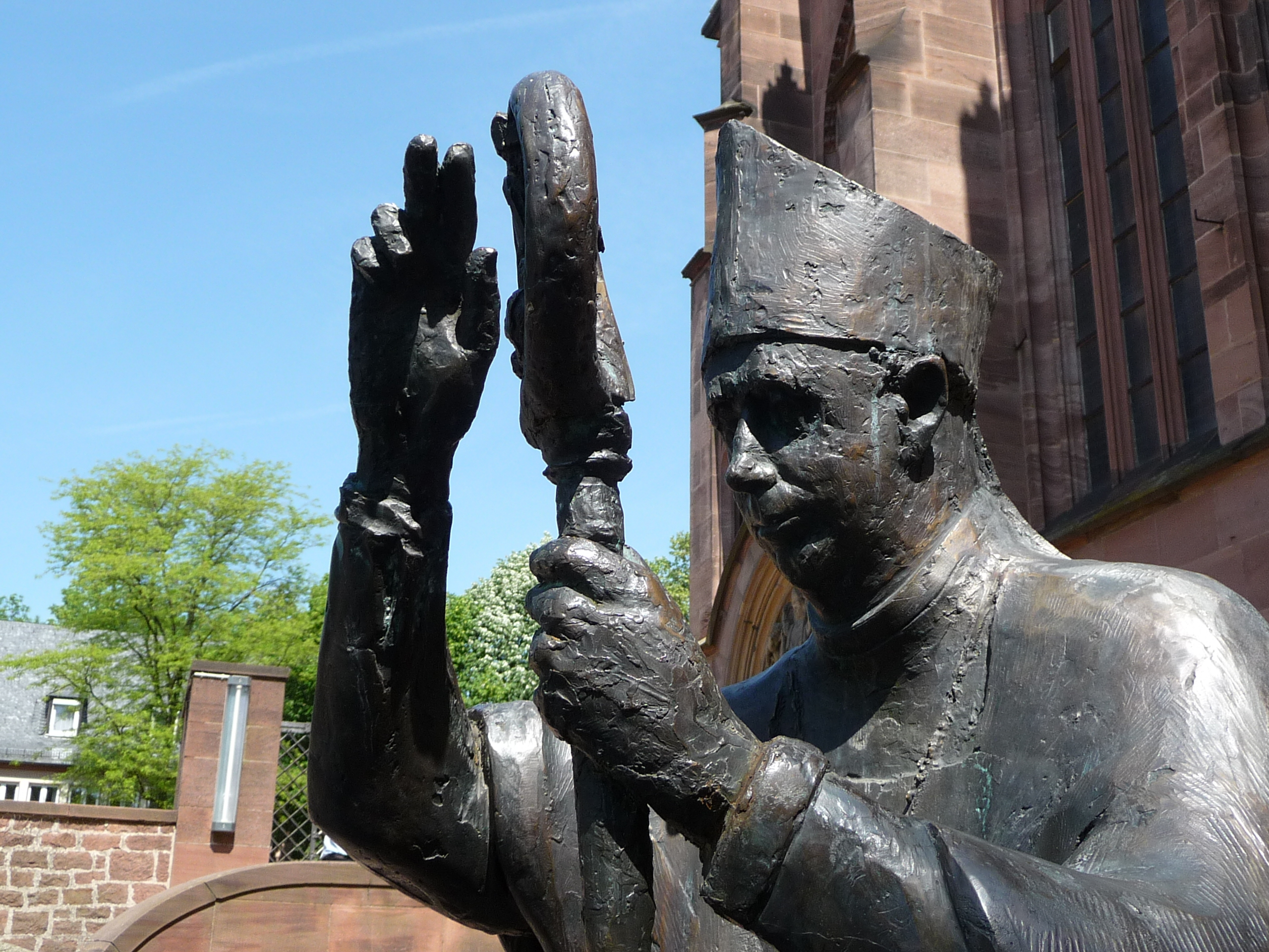 Worms